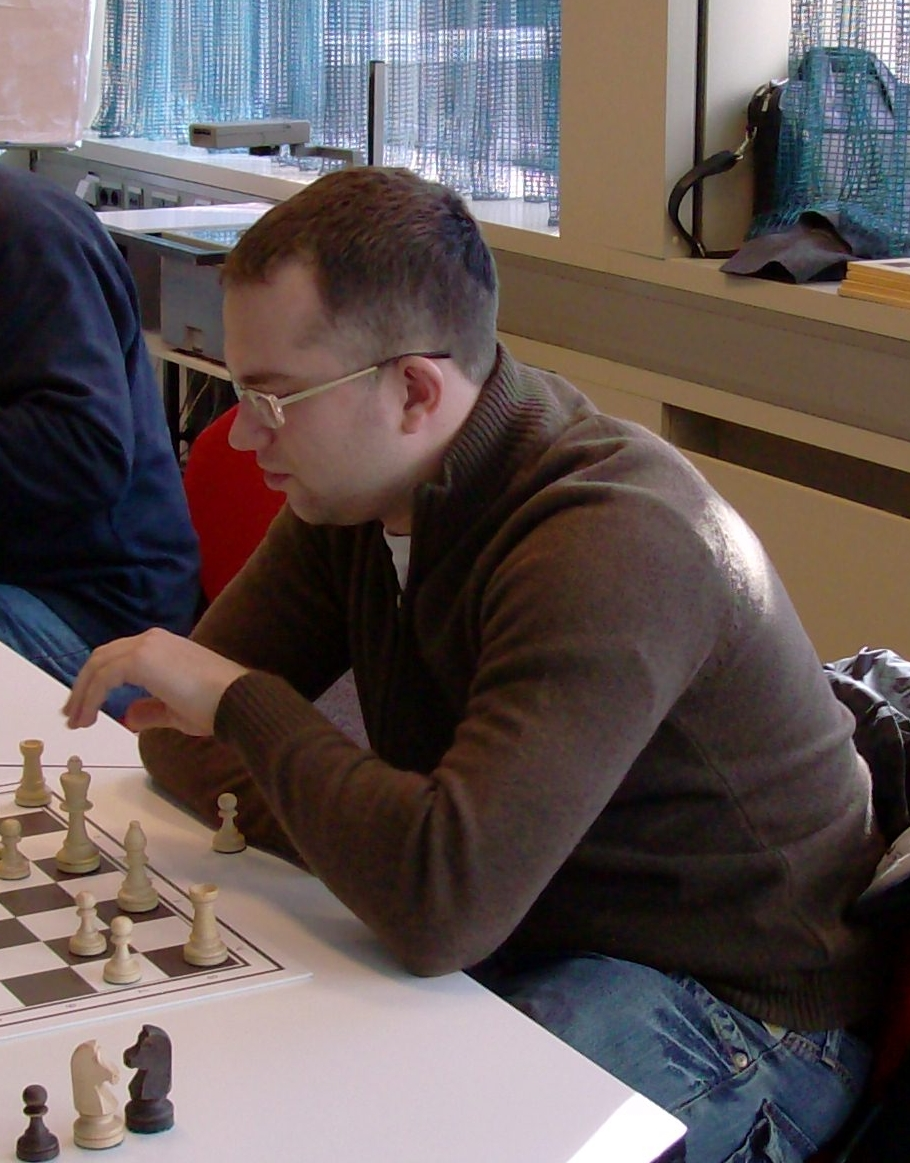 Pavel Eljanov, Ukrainian chess grandmaster